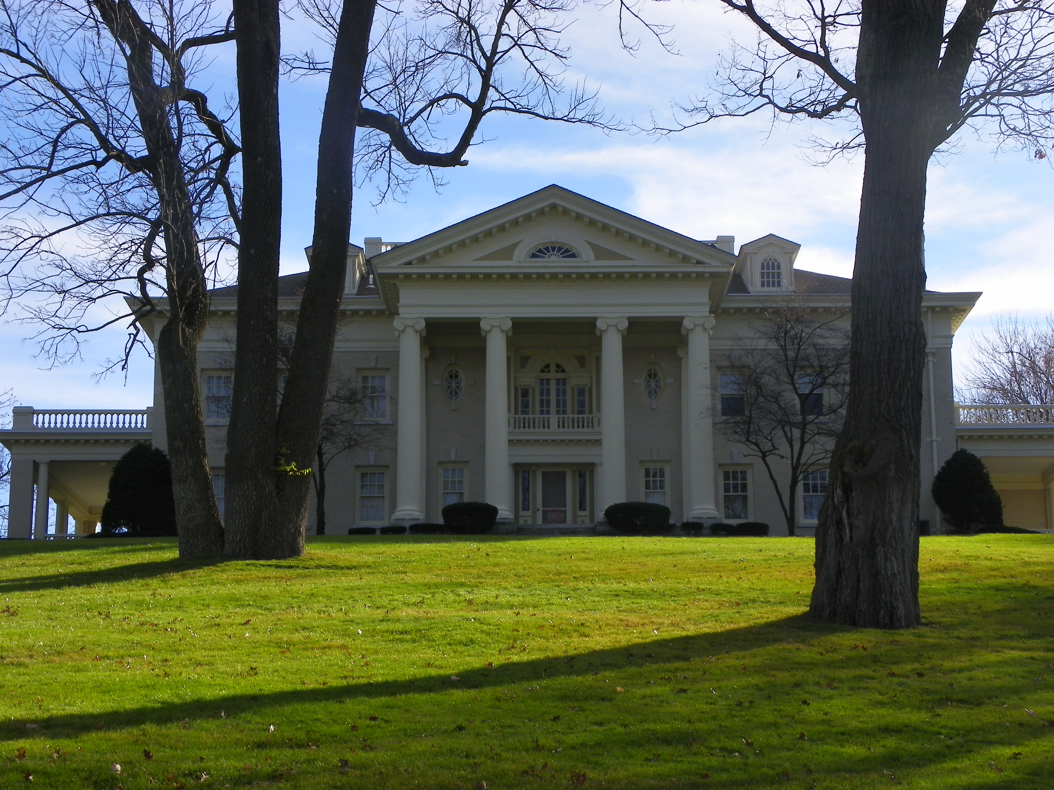 hawthorn hill front